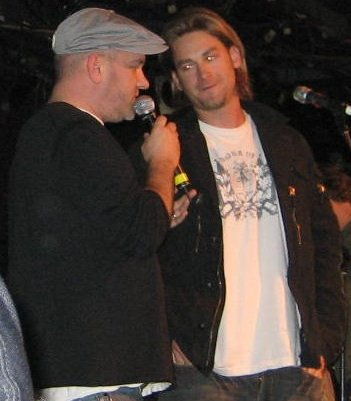 American comedic actor Mike O'Malley and American baseball player and musician Bronson Arroyo, at the Peter Gammons Hot Stove Cool Music Charity fundraiser, at the Paradise Rock Club, in Boston.